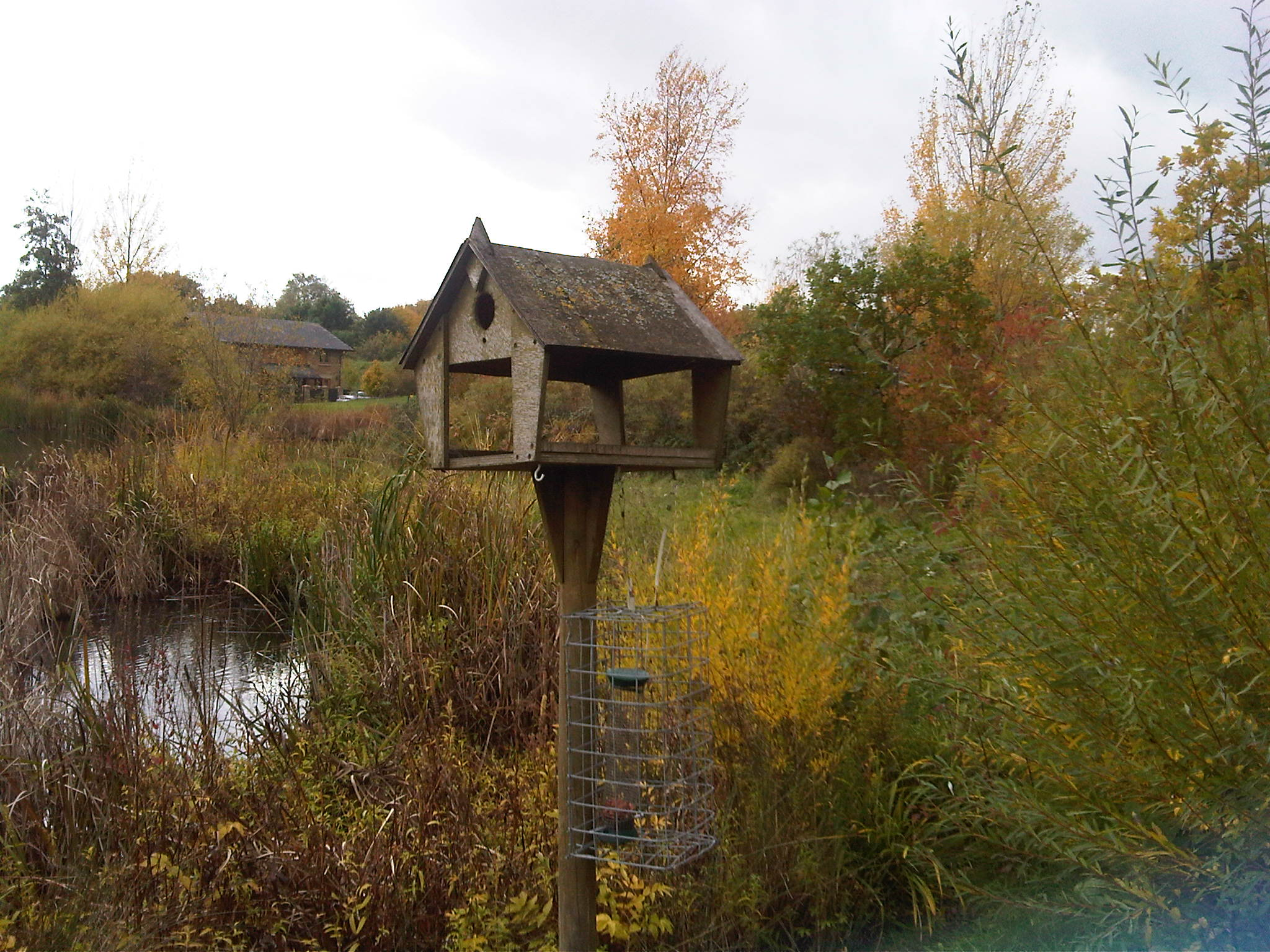 Bird feeder in WWT London Wetland Centre, London.